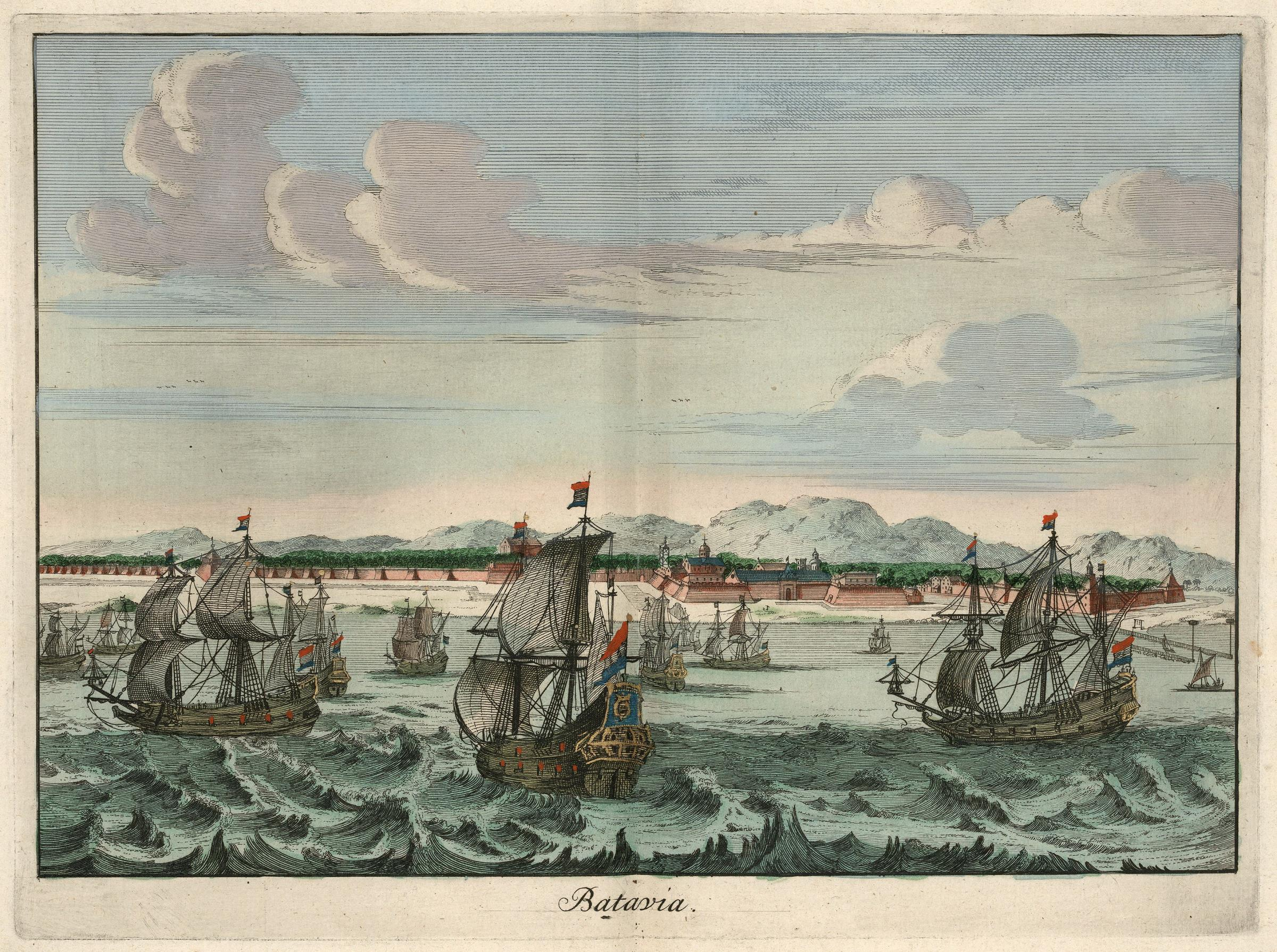 View of Batavia. Batavia. There are large number of East Indiamen lying off the coast.